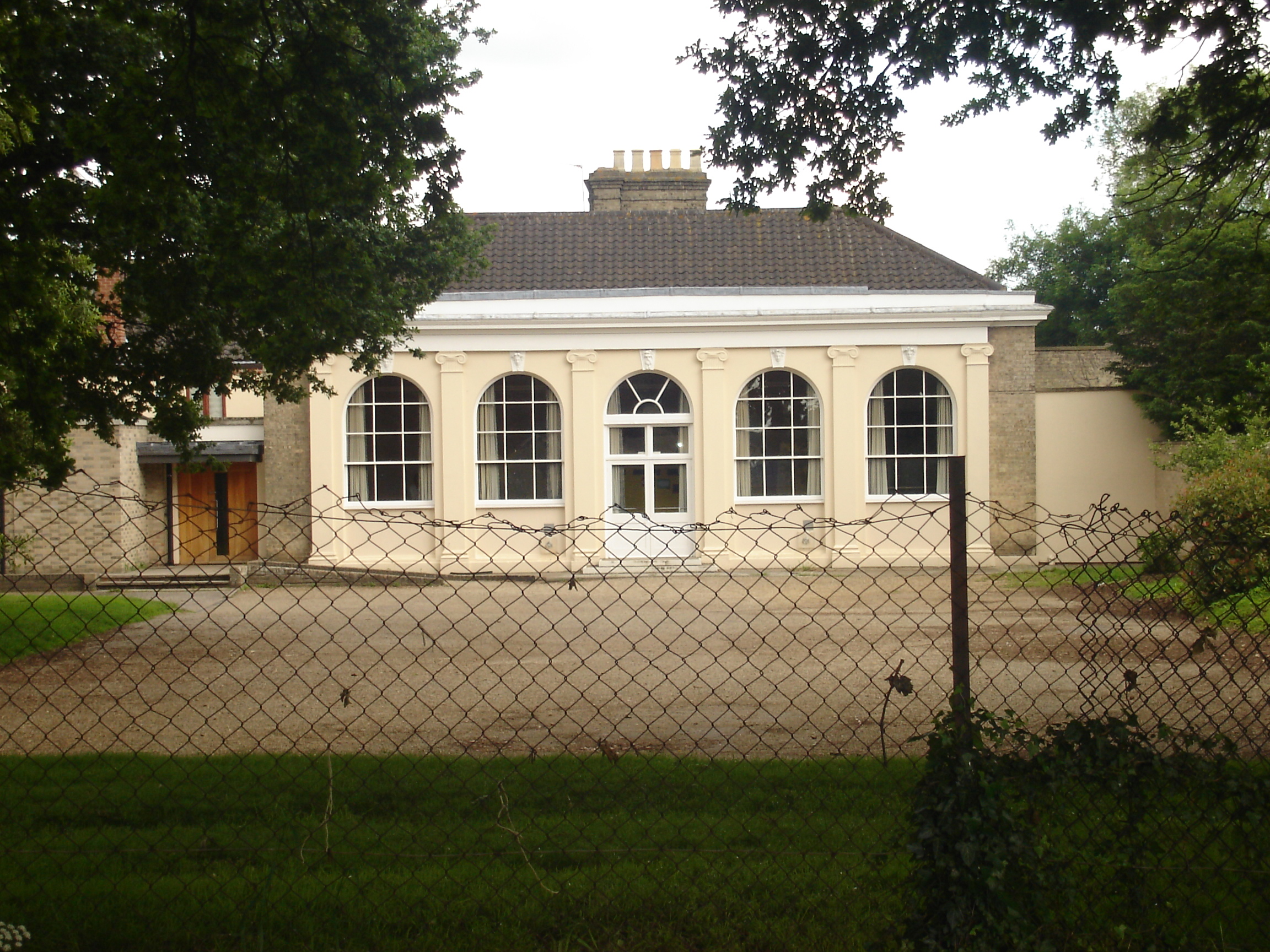 Picture of the former Orangery at Catton Hall, Old Catton, Norfolk. Today, the building is used as a village hall.